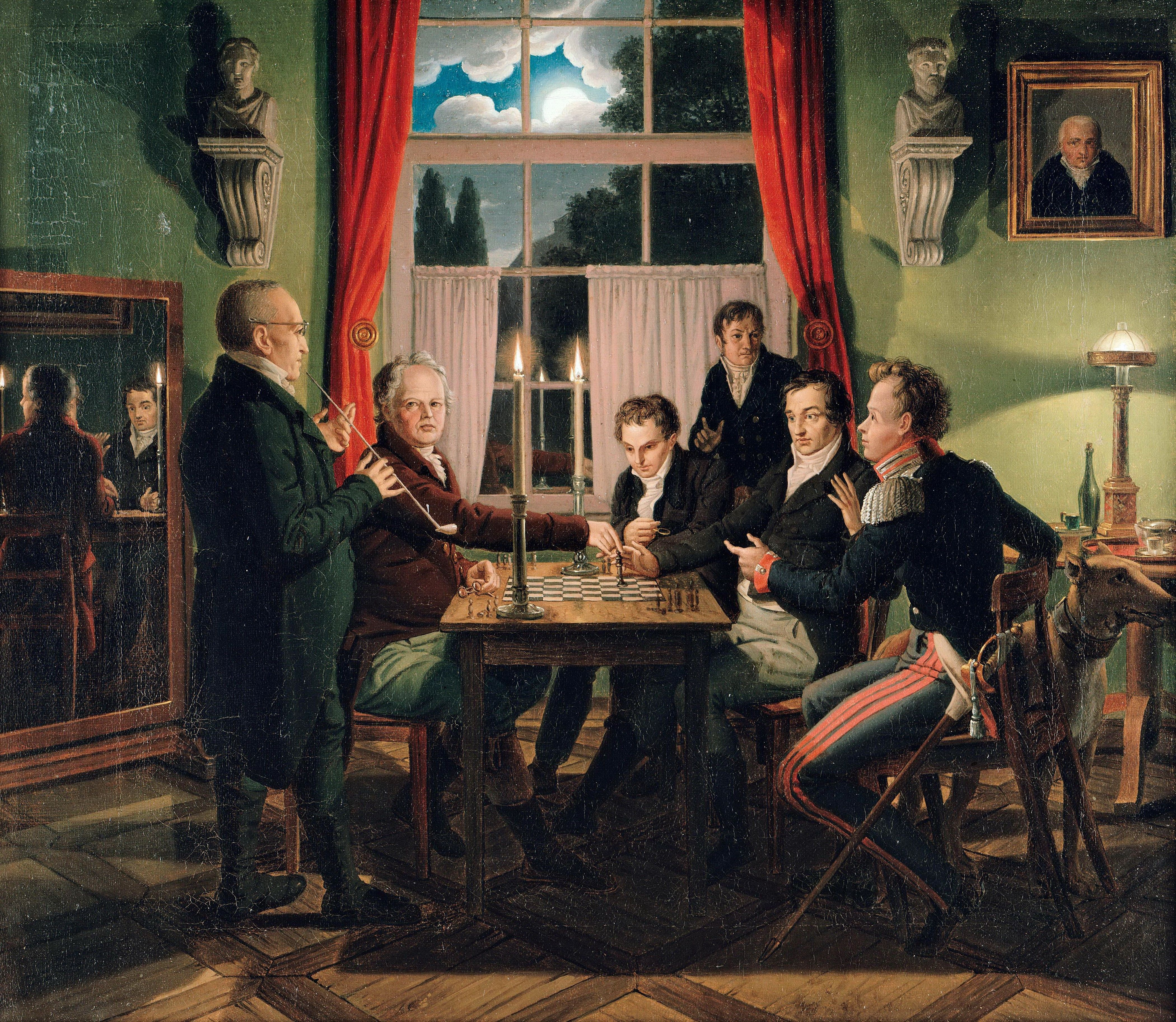 The painting portrays architect Hans Christian Genelli (with a pipe); archeologist Aloys Hirt; Gustav Adolf von Ingenheim (son of King Friedrich Wilhelm II. and countess Voss); painter Friedrich Bury; the artist himself (at the window), Count Friedrich Wilhelm von Brandenburg (son of King Friedrich Wilhelm II. and countess Doenhoff). ↑ SMB-digital, Online-Datenbank ↑ Bildarchiv Foto Marburg